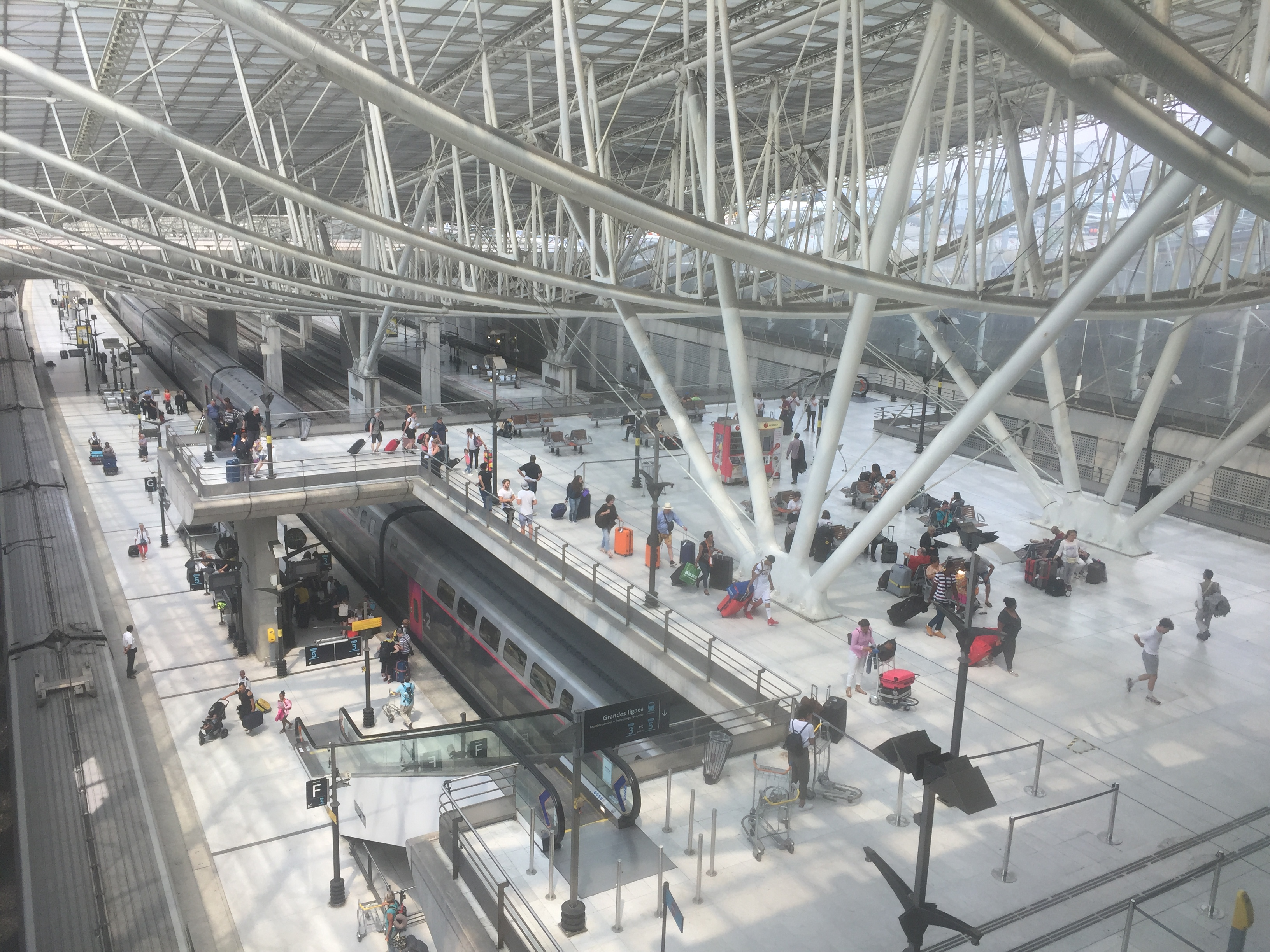 Interior of the TGV rail station at Charles de Gaulle airport in 2018